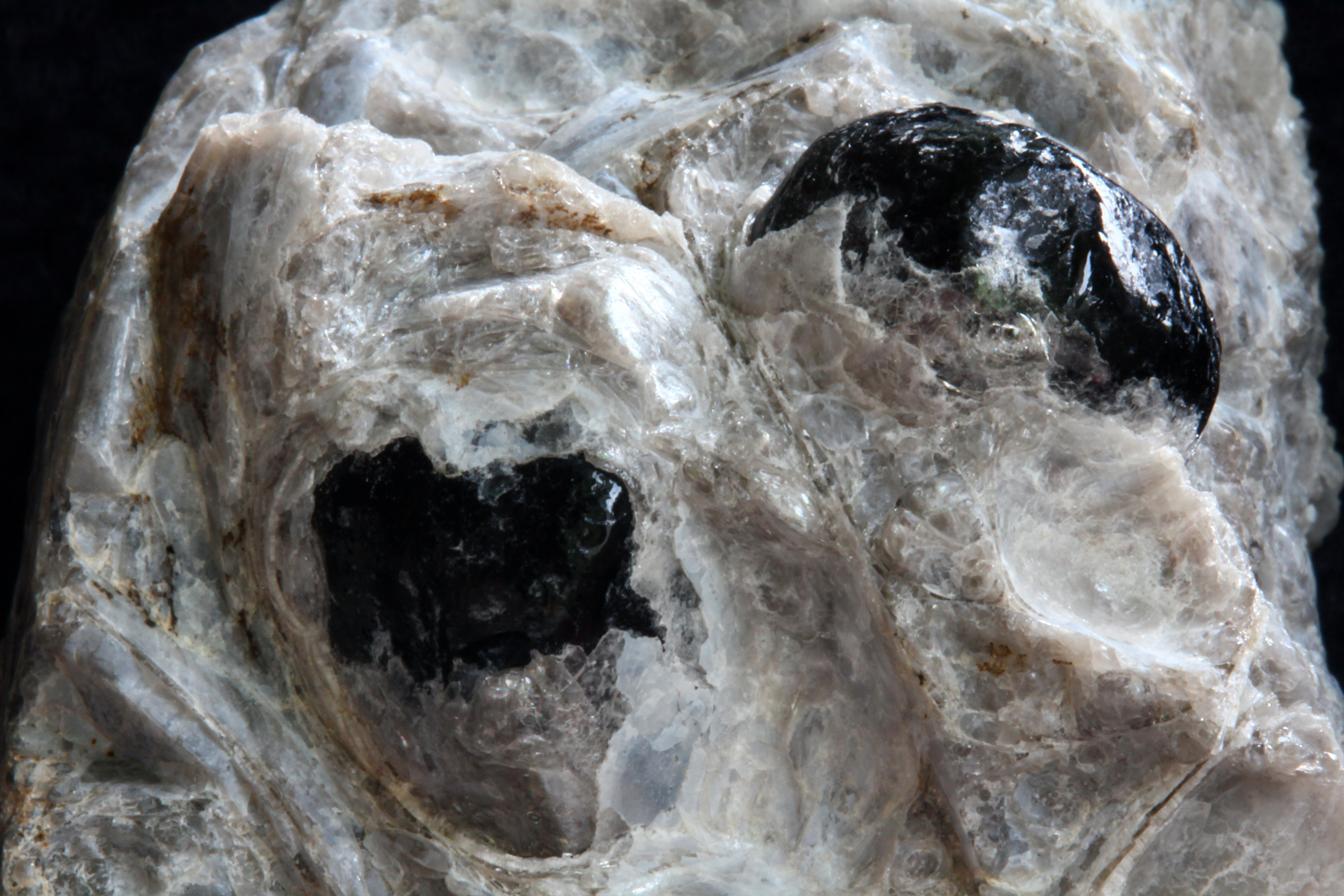 Obsidian (Apache tears) in perlite, from Arizona, USA.